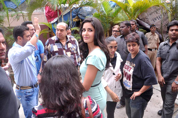 Salman Khan, Katrina Kaif at the launch of 'Ek Tha Tiger's first song 'Mashallah'